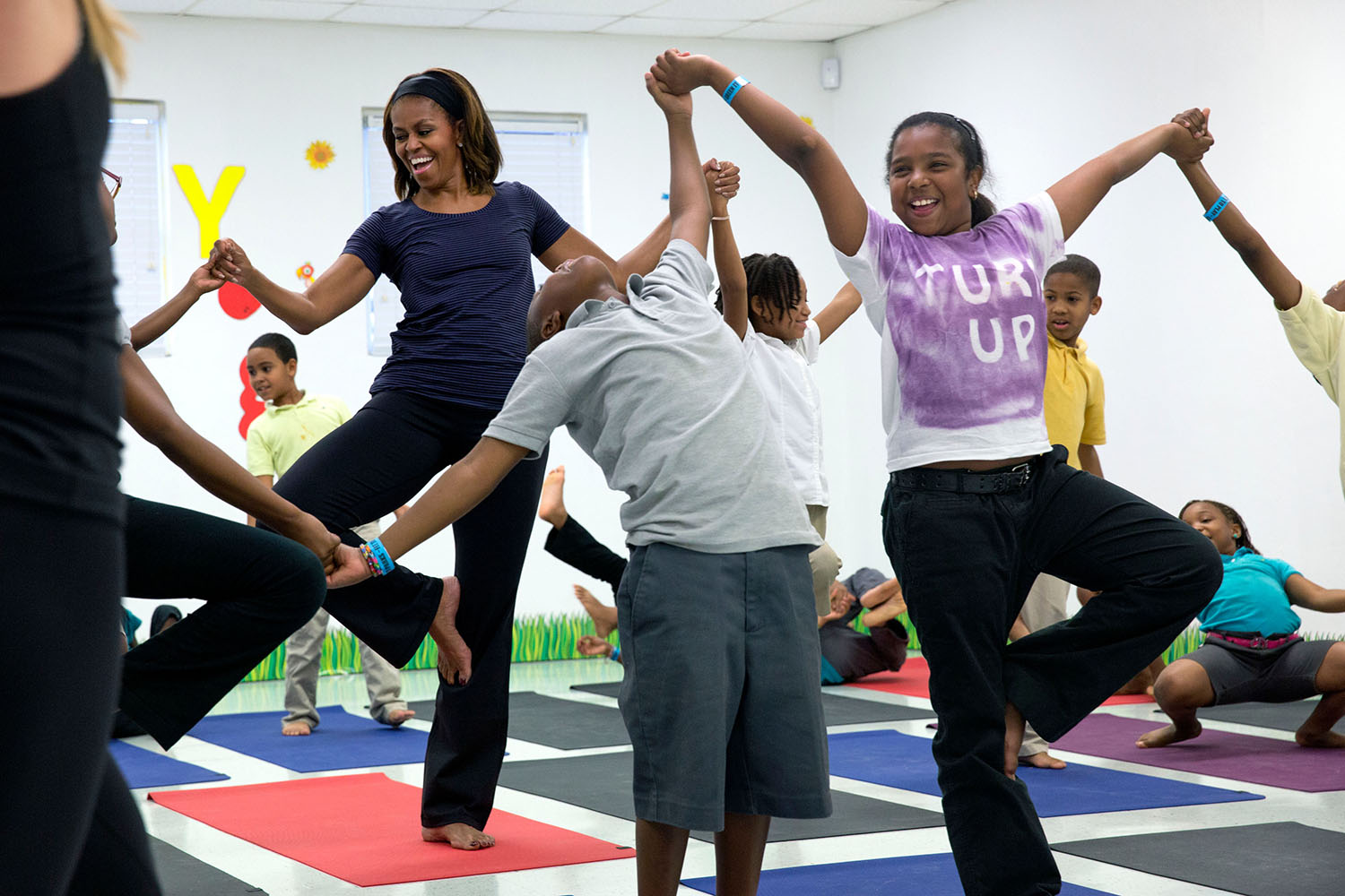 First Lady Michelle Obama joins children for a yoga class during a "Let's Move!" after school activities event at Gwen Cherry Park in Miami, Fla., Feb. 25, 2014. (Official White House Photo by Amanda Lucidon)